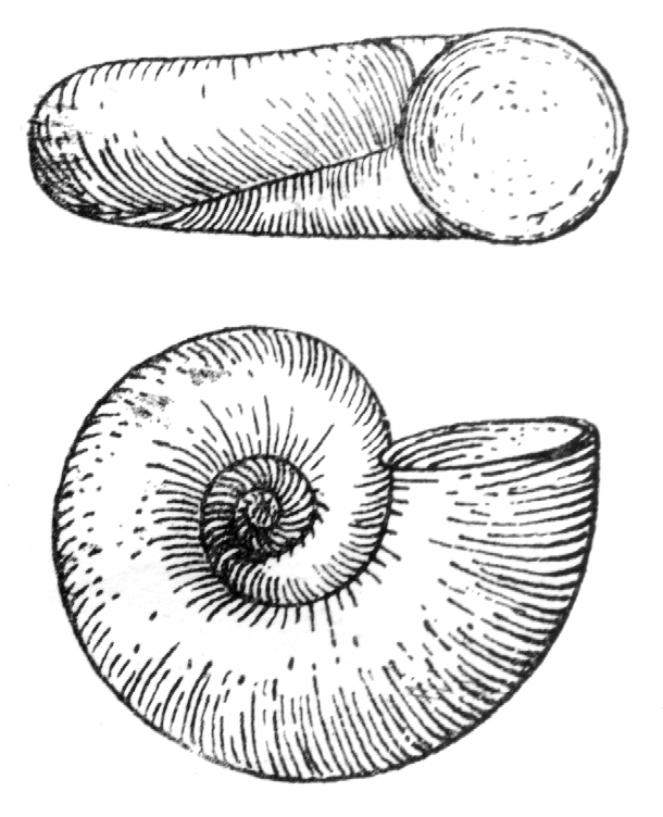 drawing of the shell Valvata cristata